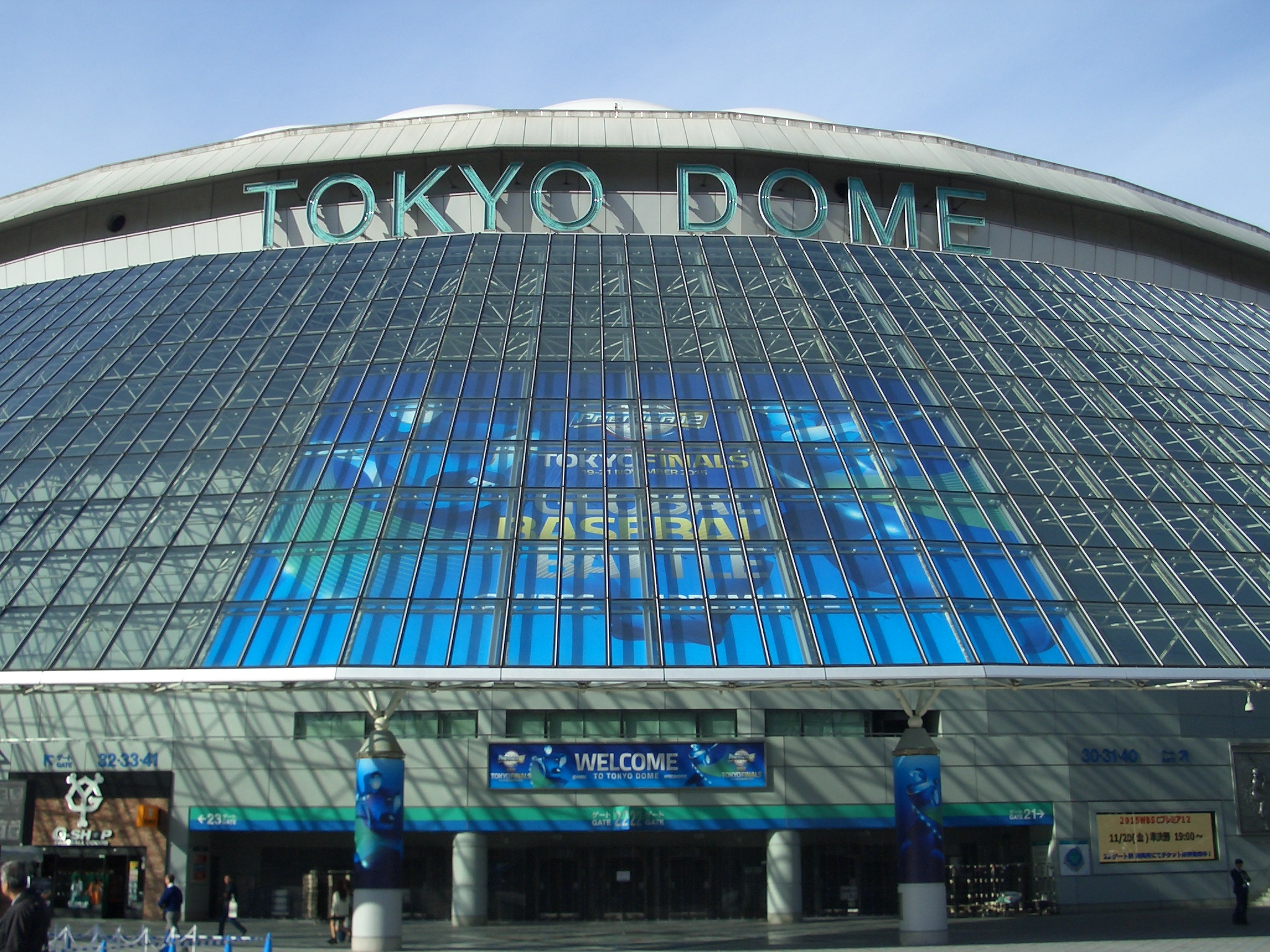 2015 WBSC Premier12 at Tokyo Dome in Tokyo, Japan, on November 19, 2015.